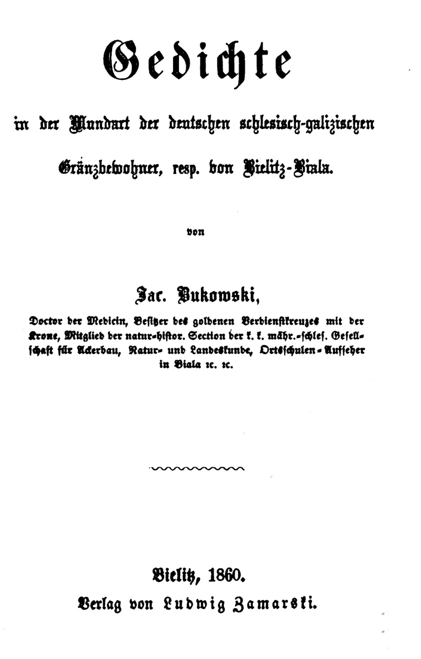 The title page of a Haltsnovian poetry collection (published in 1860).